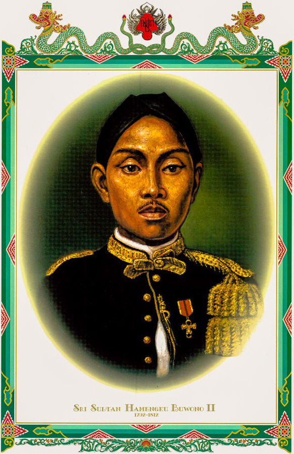 Hamengkubuwono II (1750-1828), Sultan of Yogyakarta